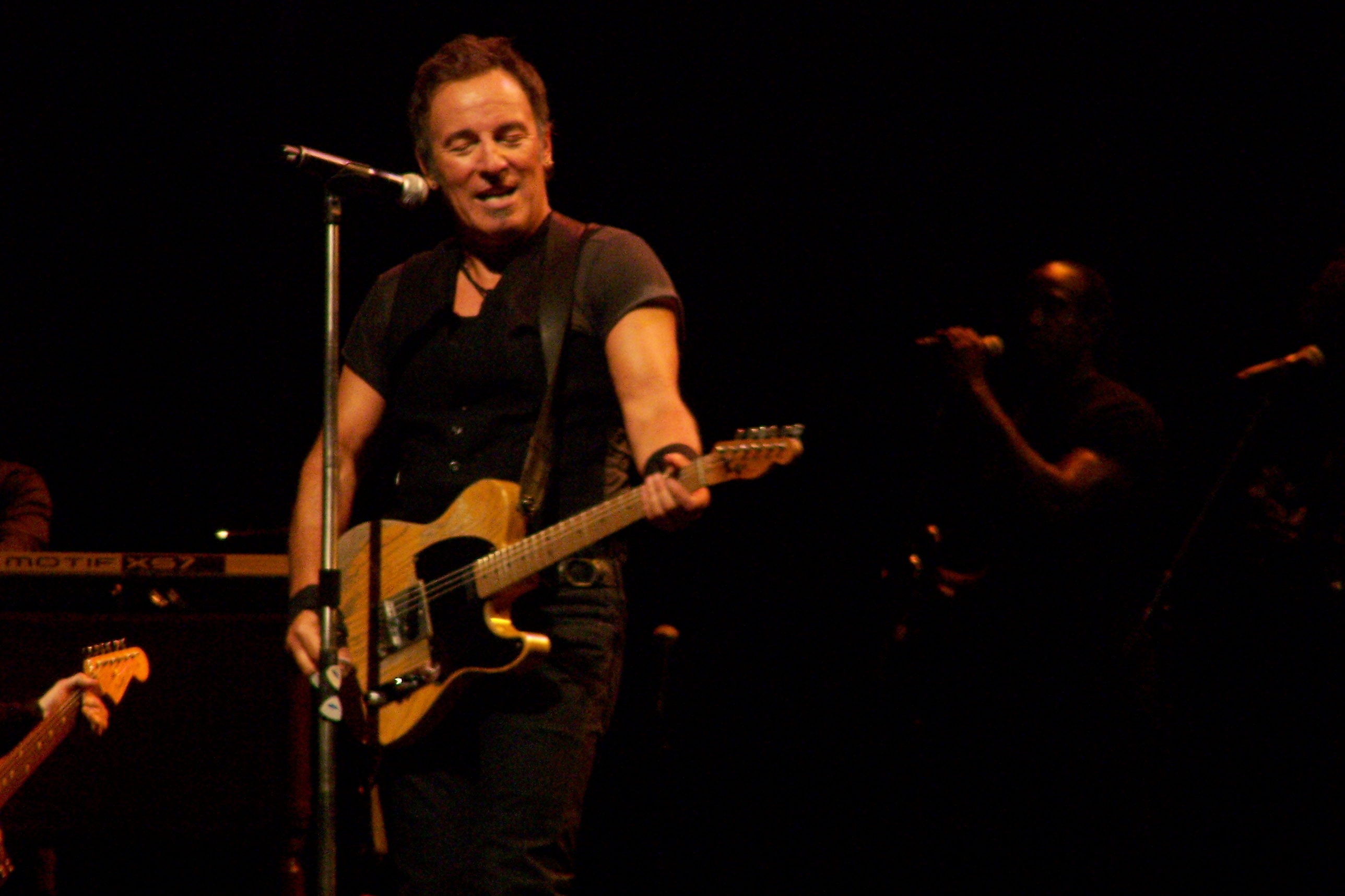 Bruce Springsteen Working on a Dream Tour 2009, Valladolid, 01-08-2009